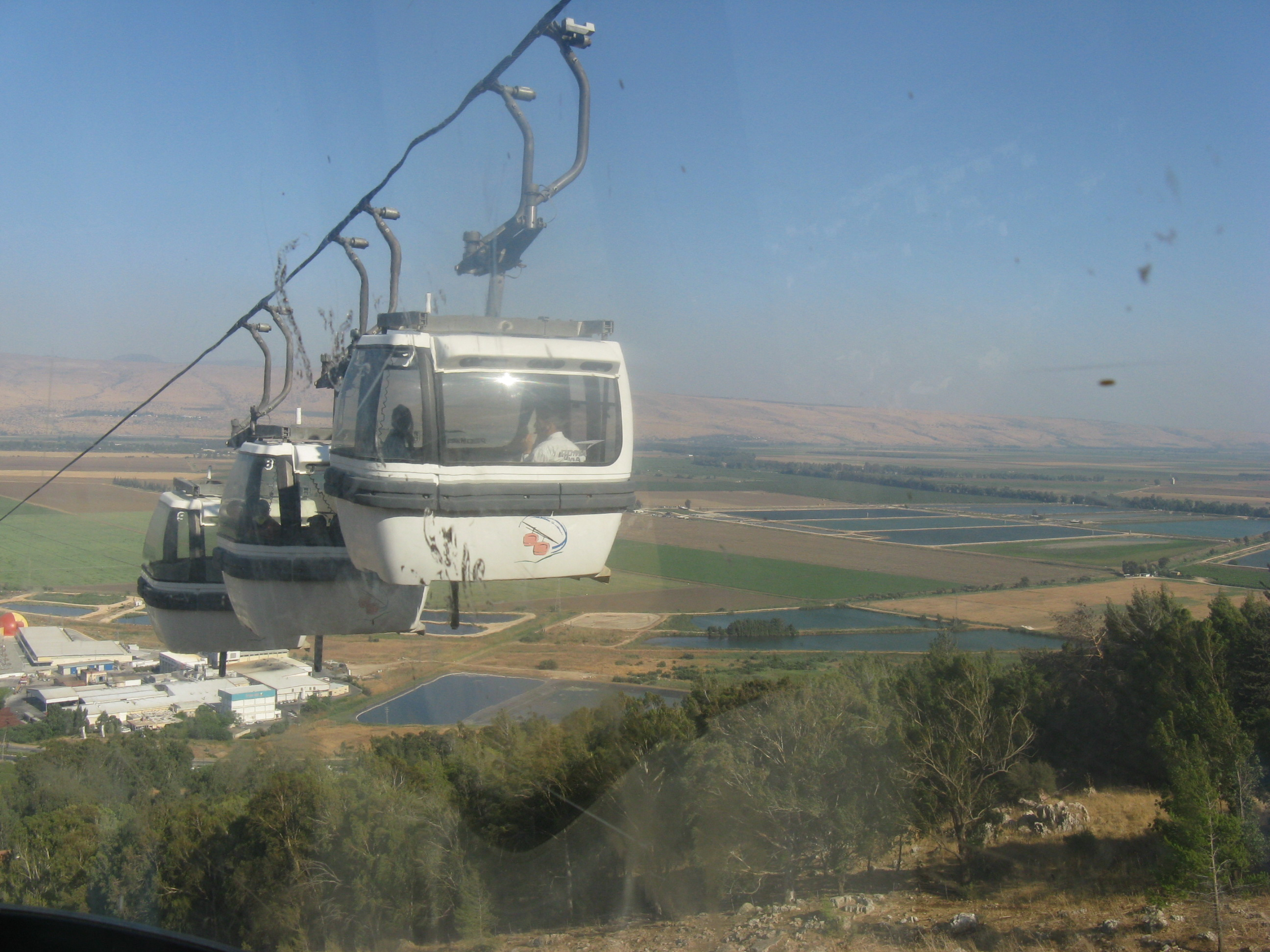 manara, Geography of Israel